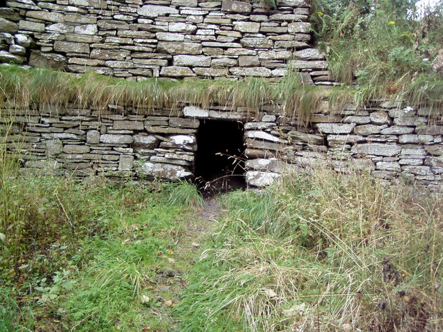 Inner Wall of Dunbeath Broch